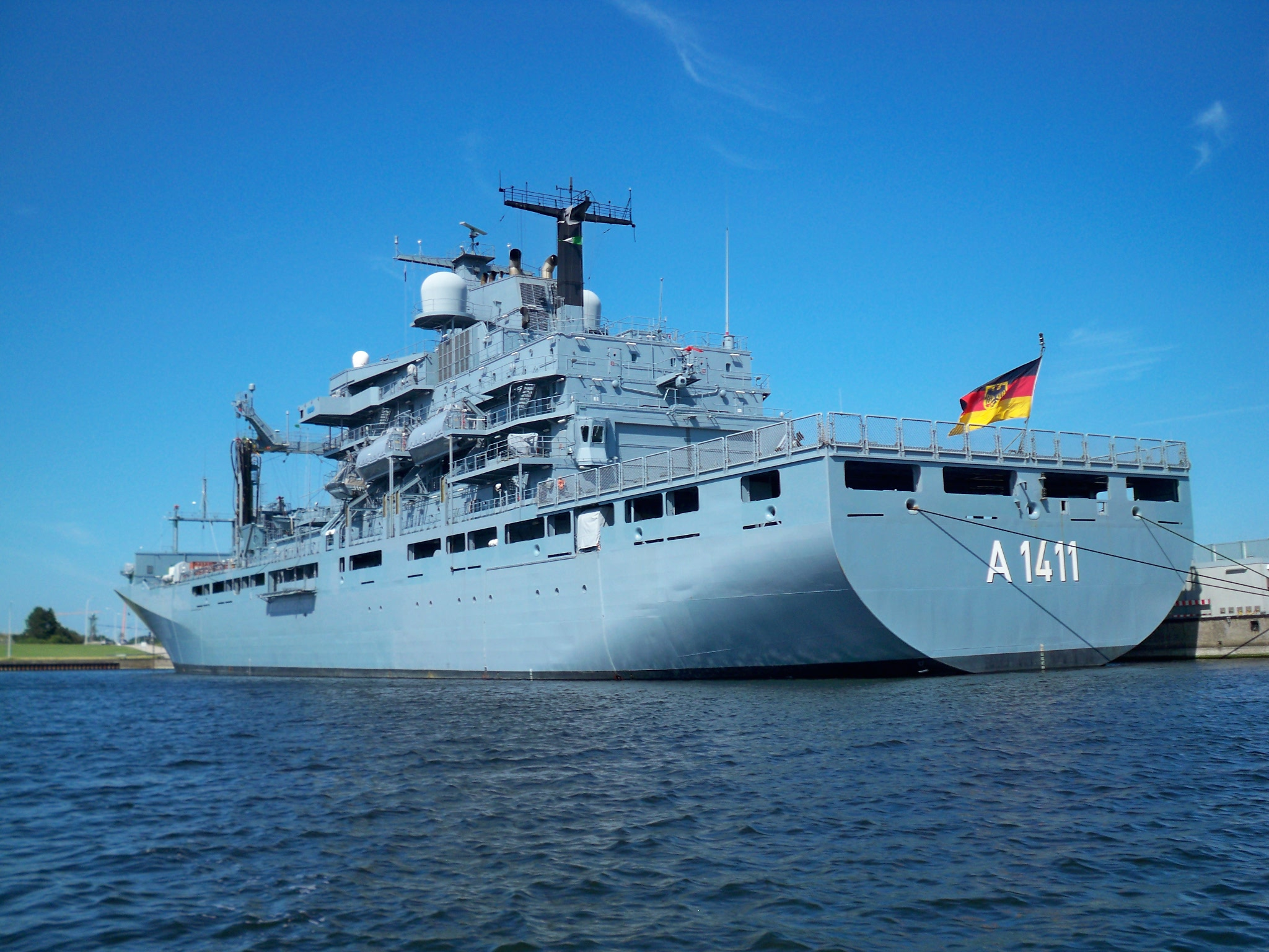 Combat store ship Berlin berthed at Naval Base Wilhelmshaven